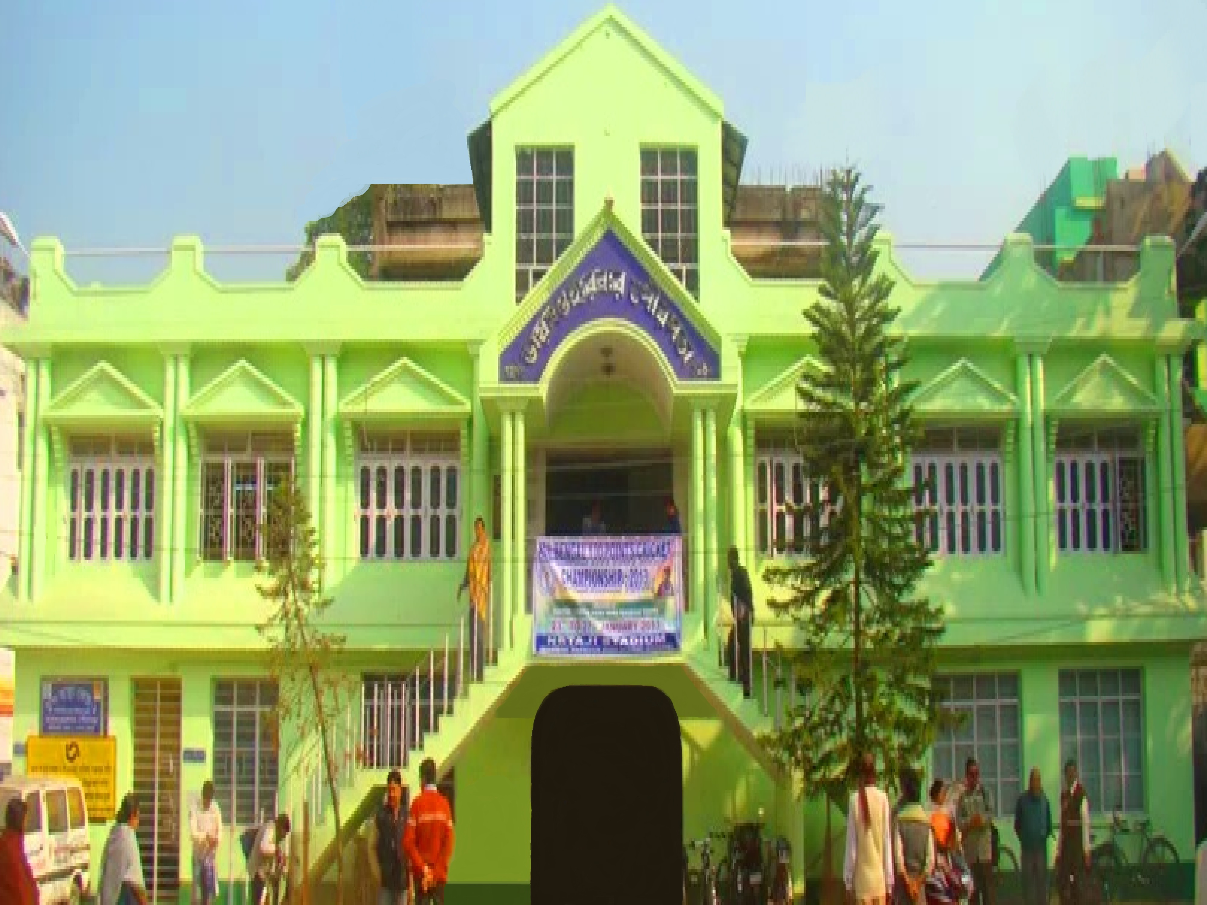 Building of the Diamond Harbour Municipal Corporation